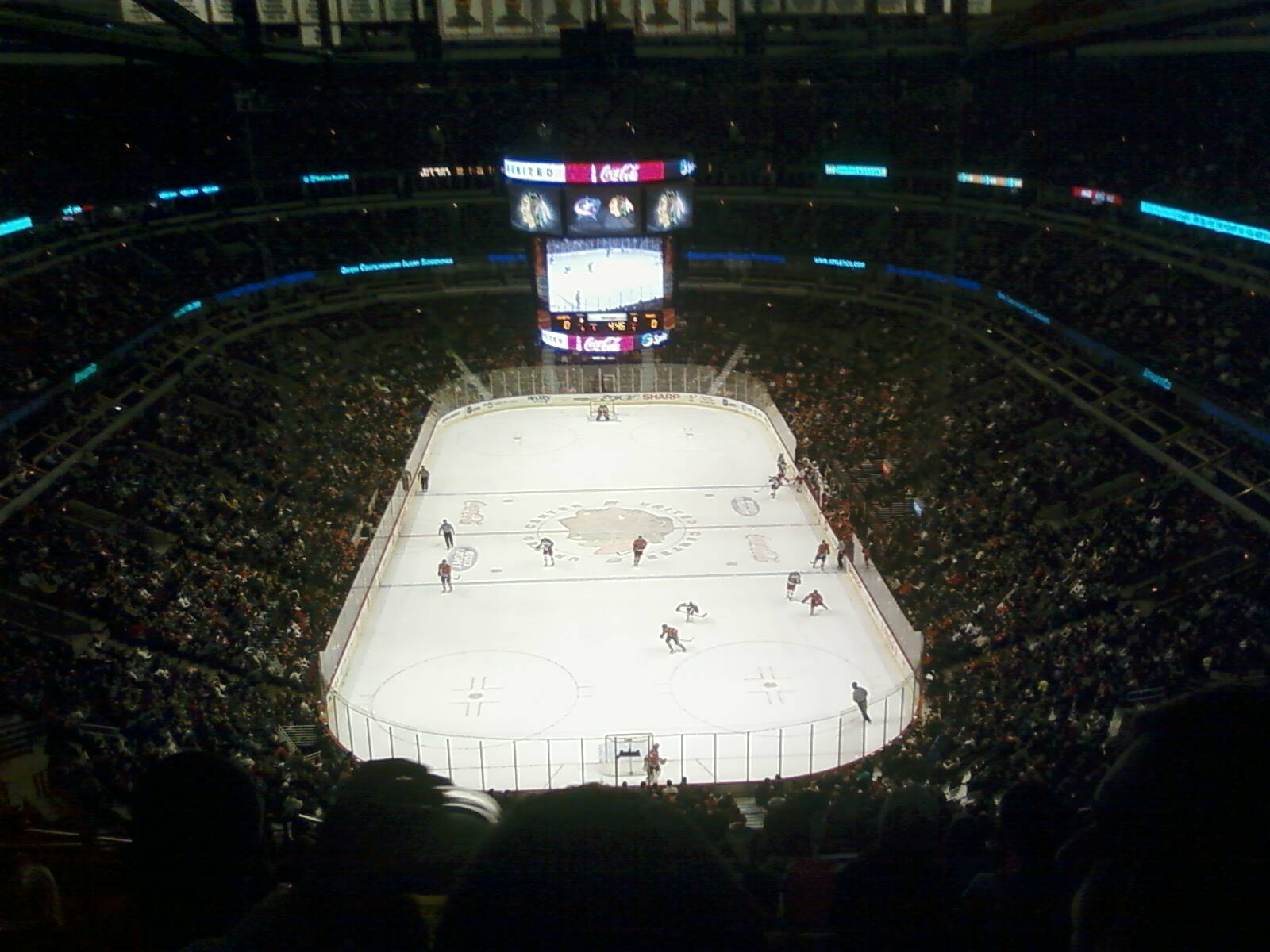 A Photo of the United Center, during a Chicago Blackhawks v. Columbus Blue Jackets game. It was taken on January 26, 2008 from the United Center's Upper Deck. Source: Myself License: I hereby release this image under a CC-SA-3.0 license.